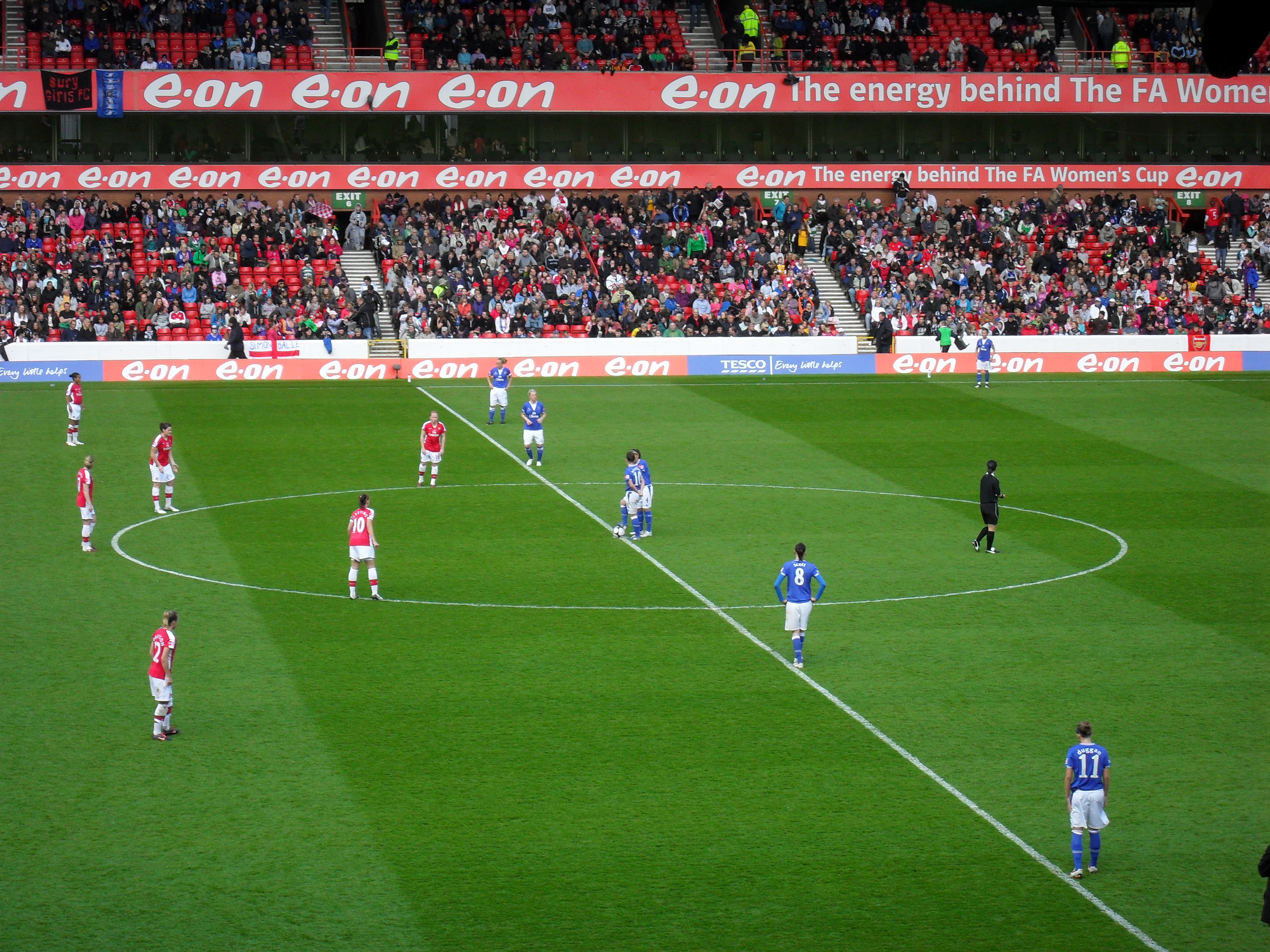 Arsenal Ladies v Everton Ladies, 2010 FA Women's Cup Final at City Ground, Nottingham. Everton won 3-2 in extra time.